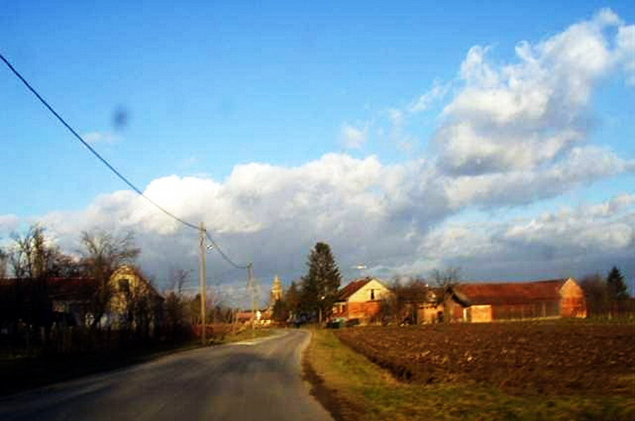 Bolč - Main Road 2